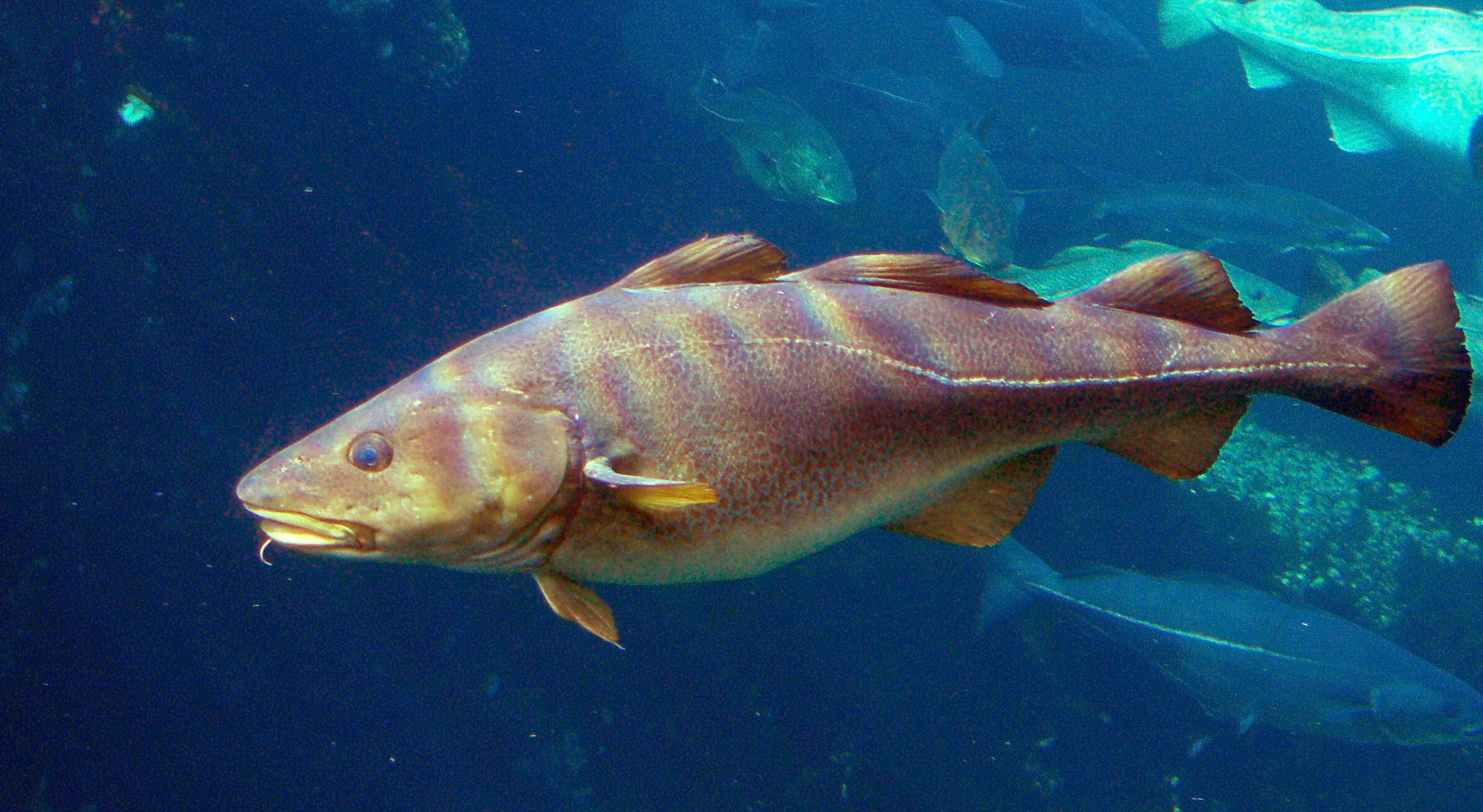 Cod, Gadus morhua, taken through glass at Atlanterhavsparken, Ålesund, Norway